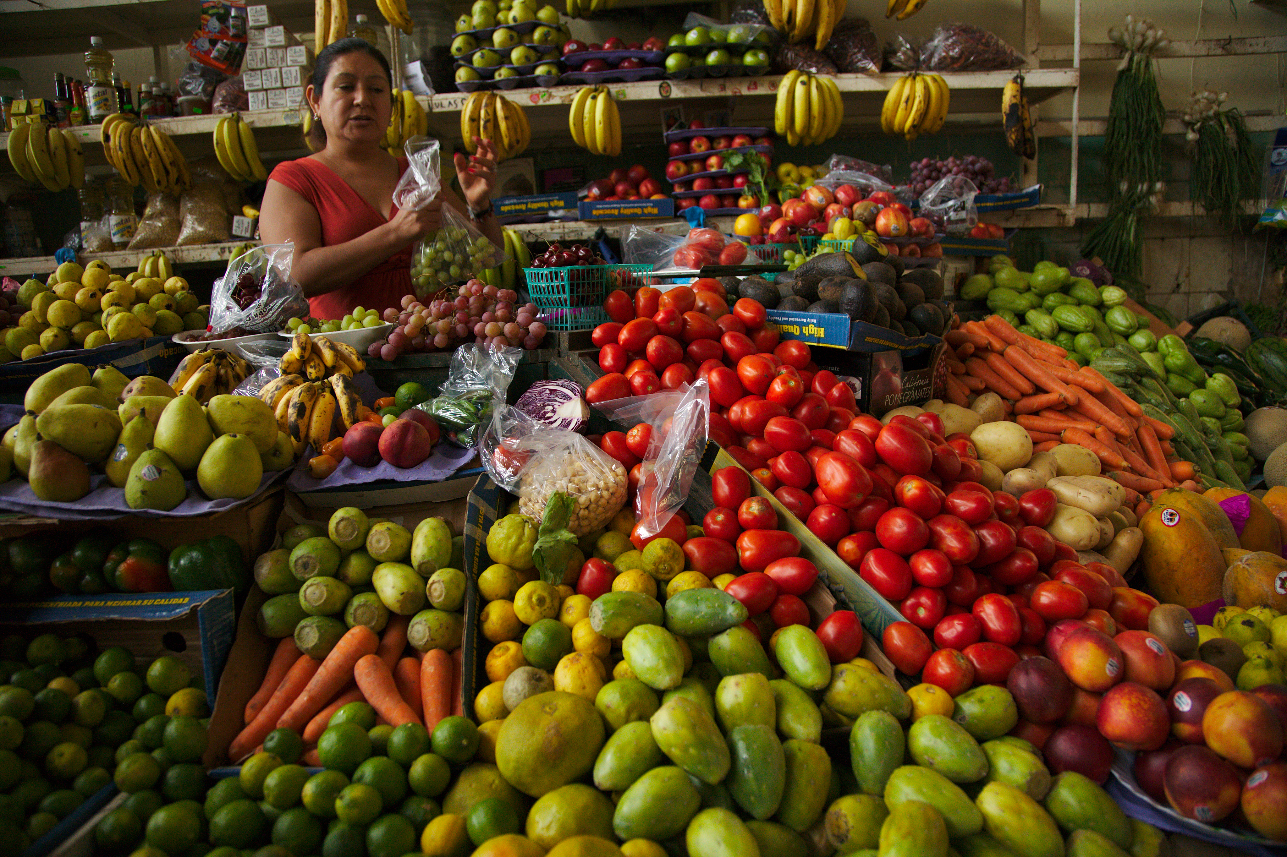 Local Fruit Market in Ameca, Jalisco, Mexico